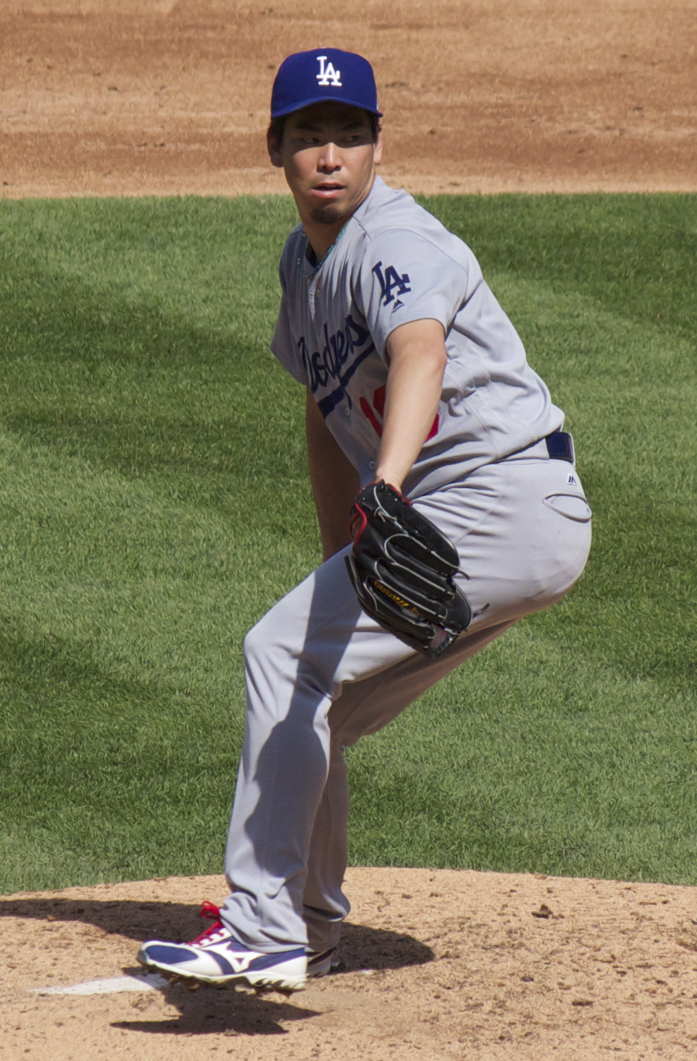 Philadelphia Phillies vs. Los Angeles Dodgers 9/21/17